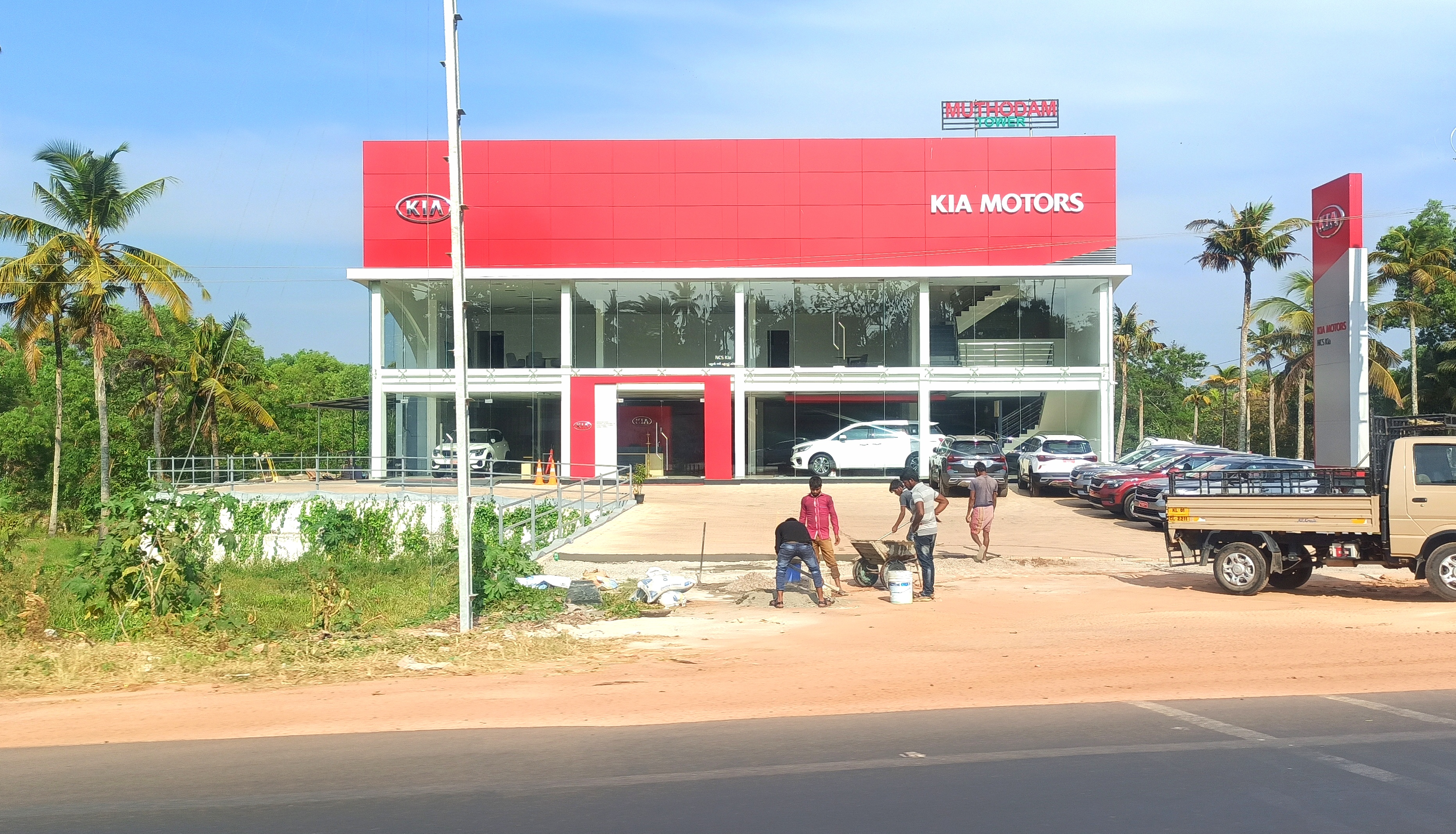 Kia's first showroom in Kollam is situated at Palathara in Kollam Bypass